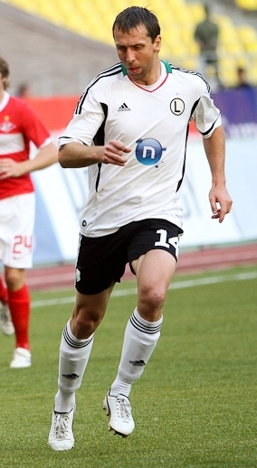 Association football player Jakub Wawrzyniak from Poland during UEFA Europa League qualification match between Legia Warszawa and Spartak Moscow at Luzhniki Stadium.